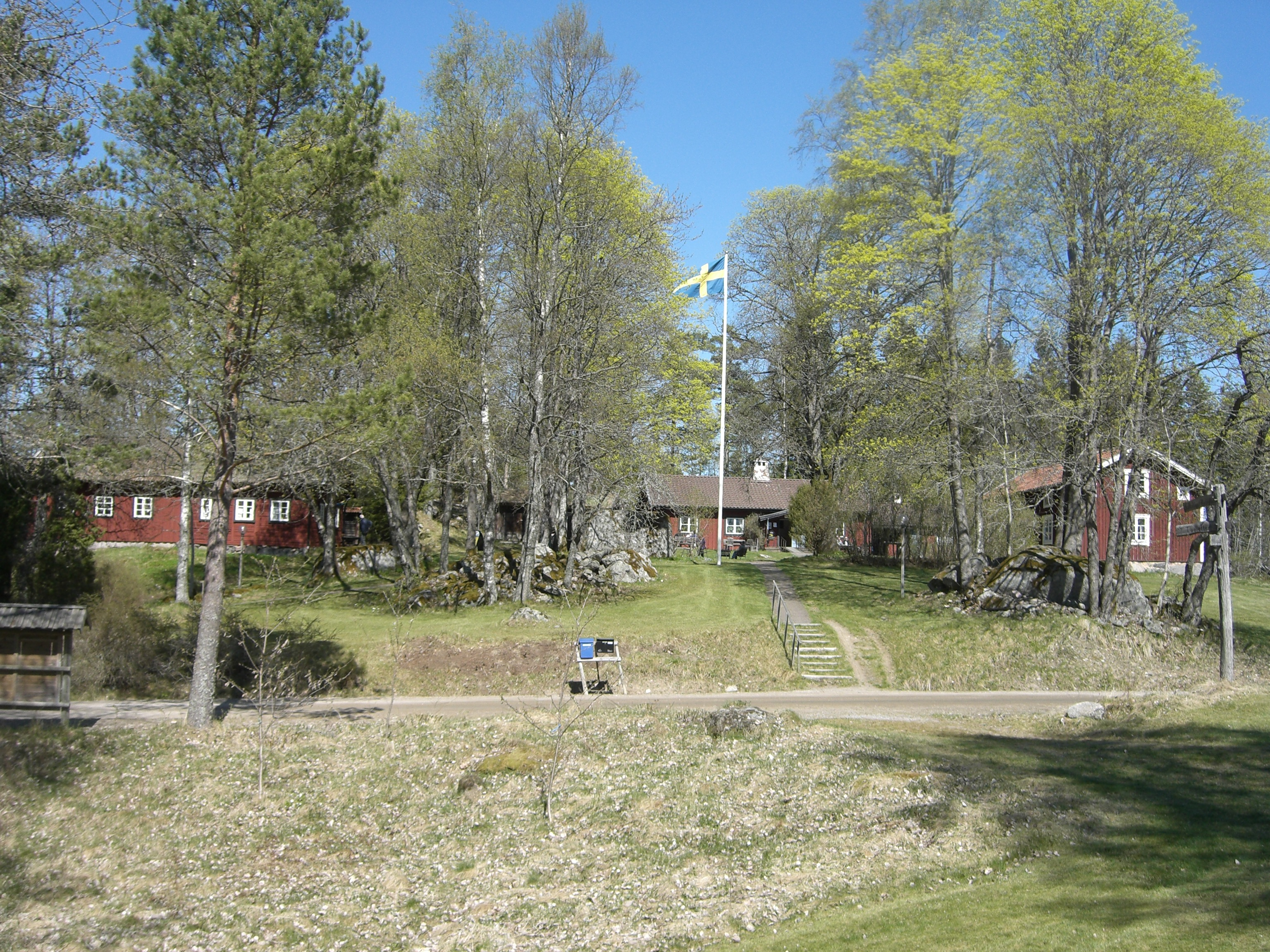 Café in the village of Tivedstorp in Sweden